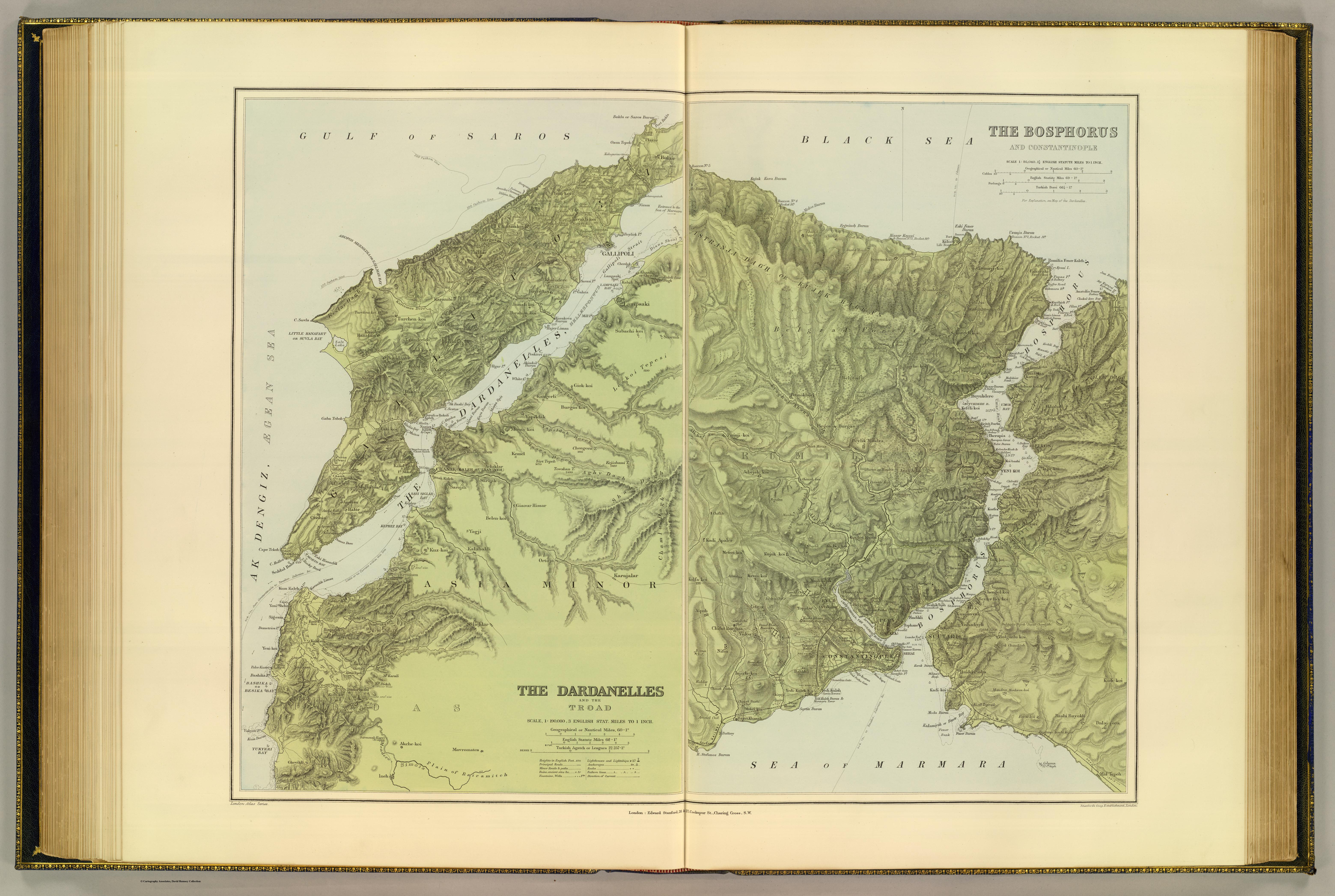 The Dardanelles and the Troad. The Bosphorus and Constantinople.